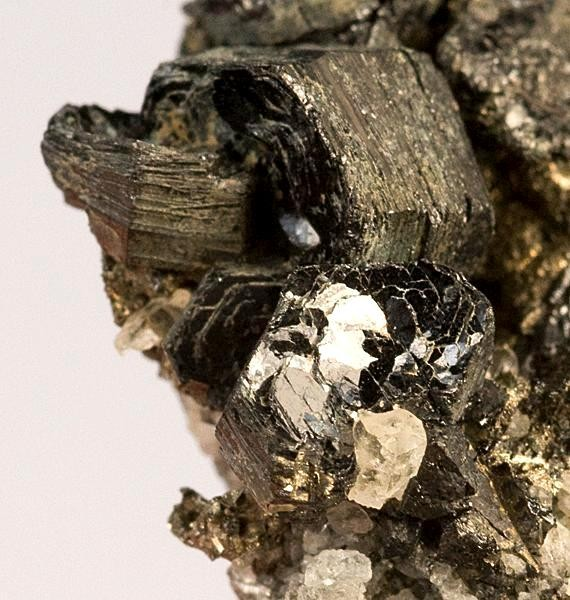 Wurtzite Locality: Siglo Veinte Mine (Siglo XX Mine; Llallagua Mine; Catavi), Llallagua, Rafael Bustillo Province, Potosí Department, Bolivia (Locality at ) Size: 3.0 x 2.2 x 2.1 cm. Wurtzite is an uncommon zinc, iron sulfide, seldom found in well-developed crystals. This fine specimen features booklets of sharp, hexagonal, submetallic wurtzite crystals aesthetically set on quartz matrix and accented with brassy chalcopyrite from the Siglo Veinte Mine at Llallagua, Bolivia. The wurtzite crystal clusters look like classic, textbook hematite "iron roses". The important aspect of this specimen is that these are actual crystals and not small massive "blebs". Ex. Dick Jones Collection.